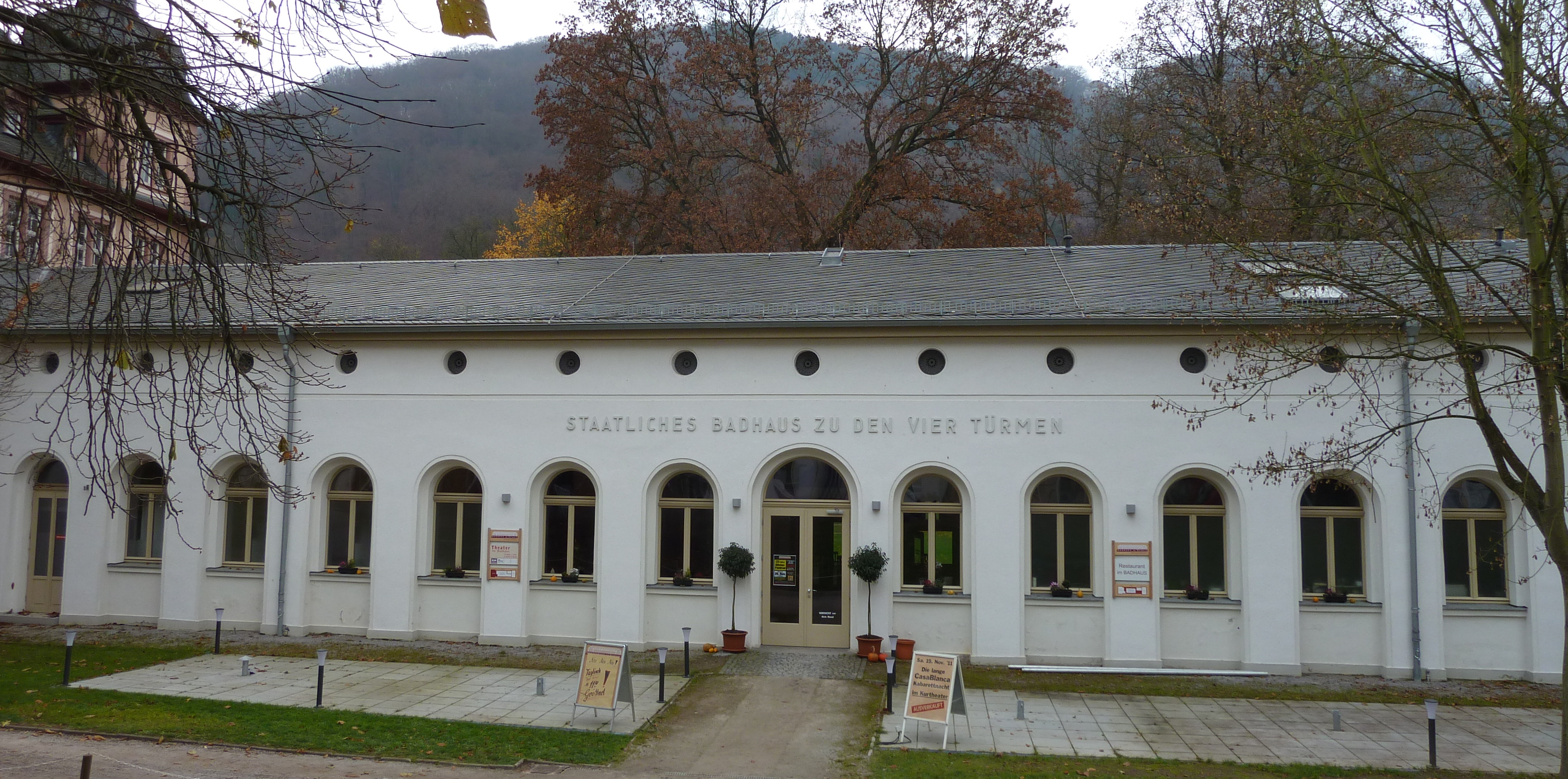 former Badhaus in Bad Ems, northside